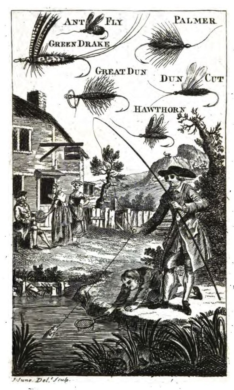 Frontpiece from The Art of Angling, Richard Brookes, 7th Edition, 1790.